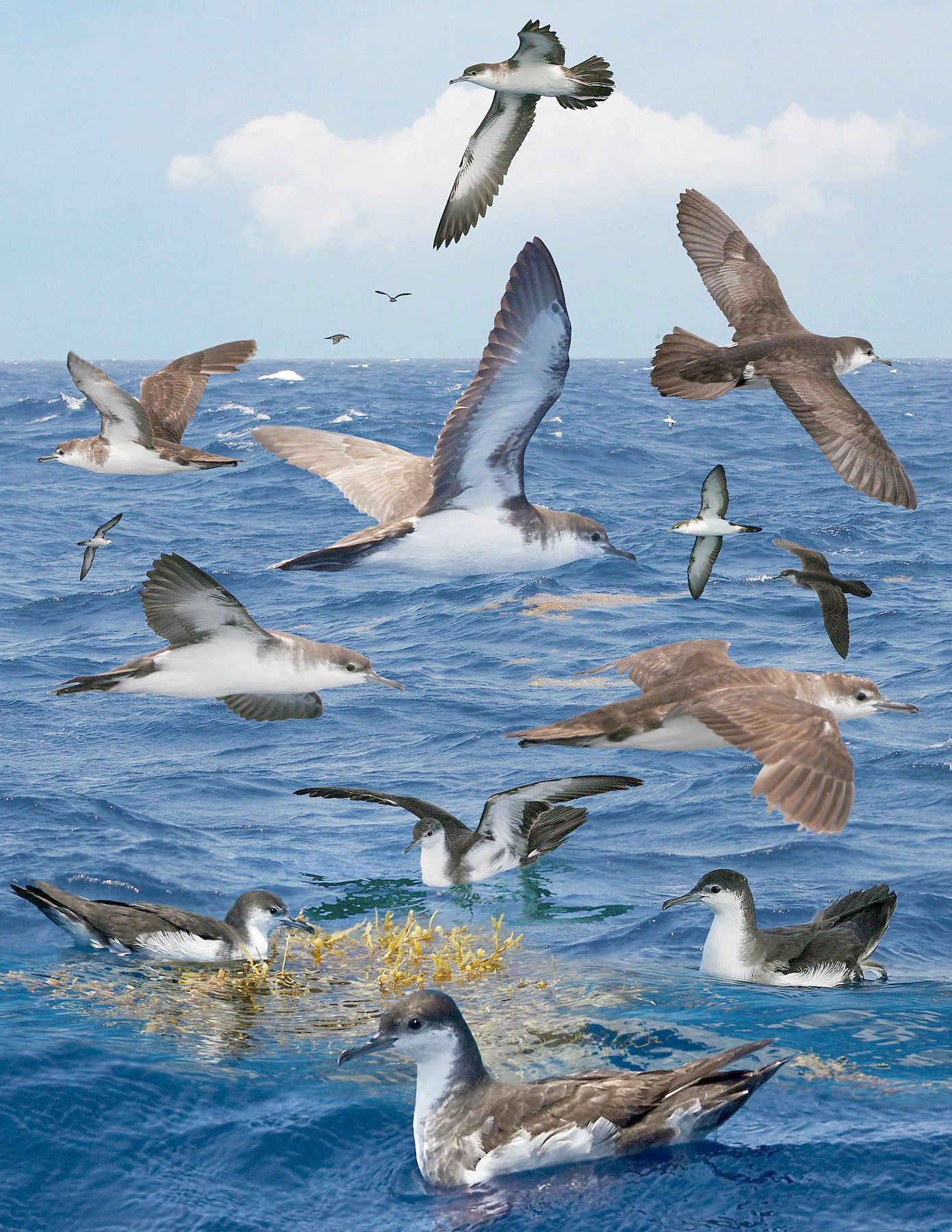 Audubons Shearwater From The Crossley ID Guide Eastern Birds